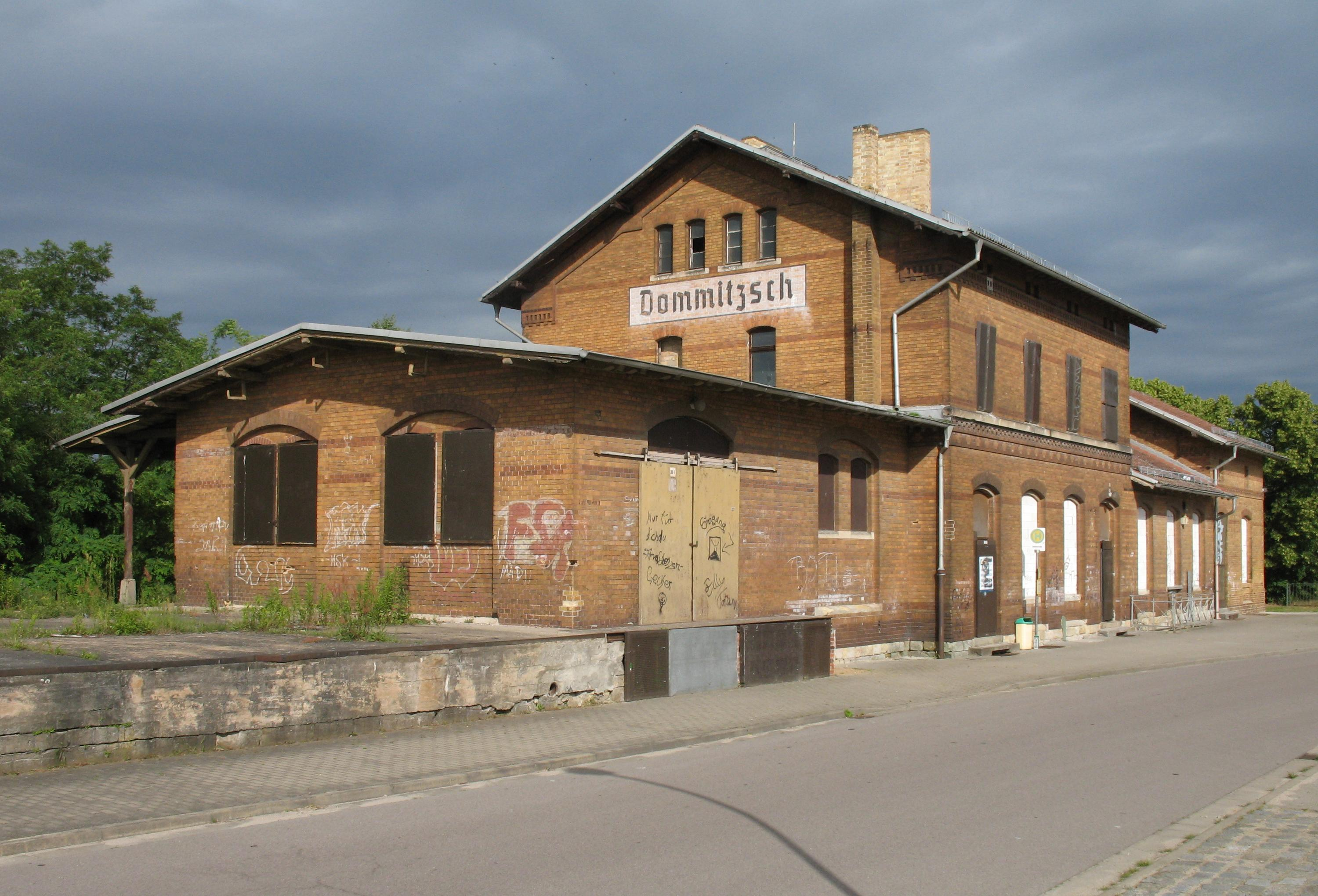 Former railway station in Dommitzsch in Saxony, Germany